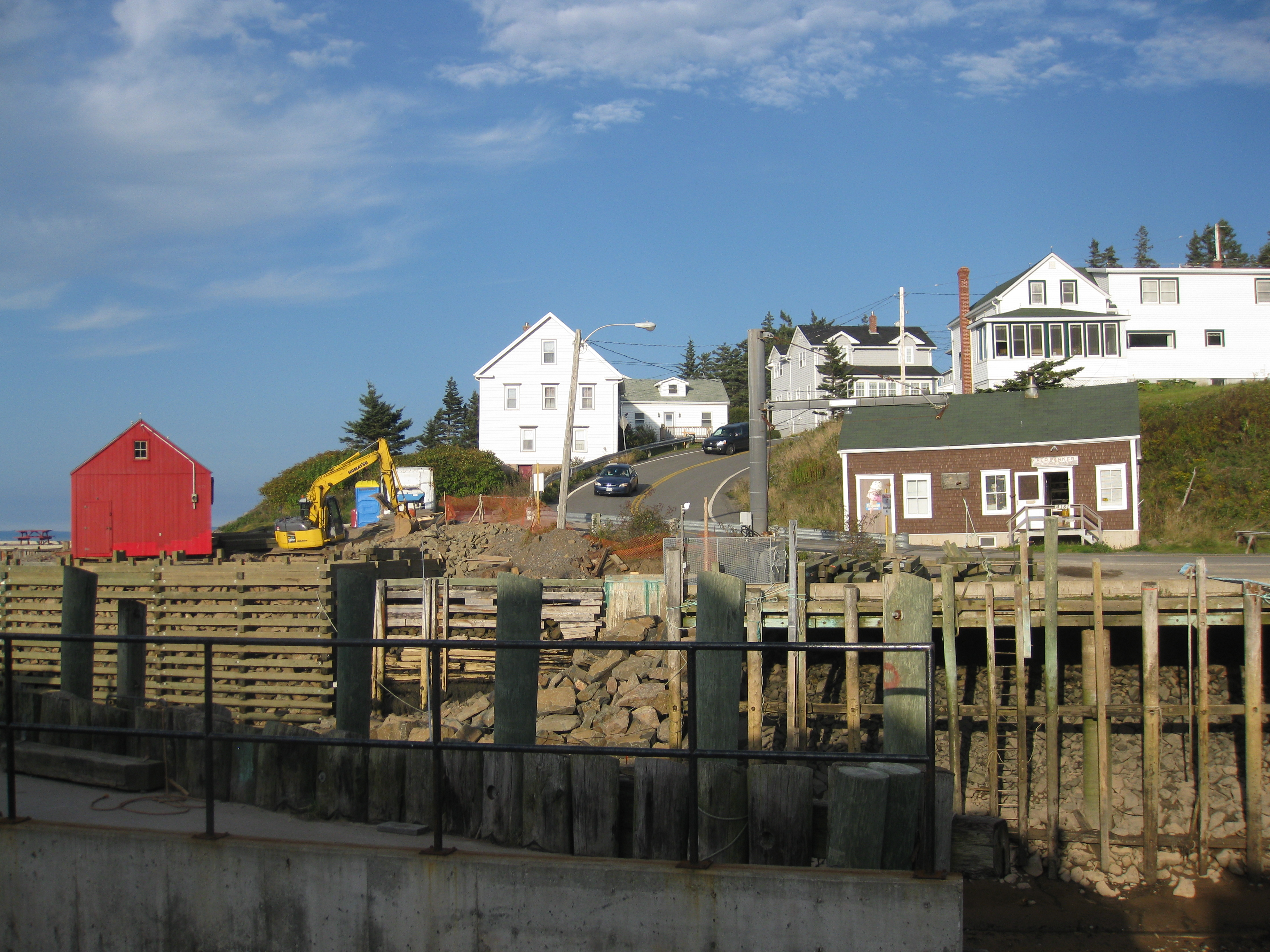 View of the road into Hall's Harbour